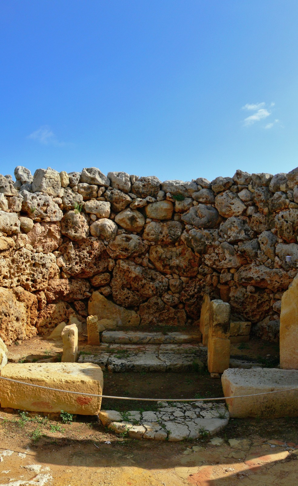 Side altar in the Ġgantija temple (Xagħra, Gozo)